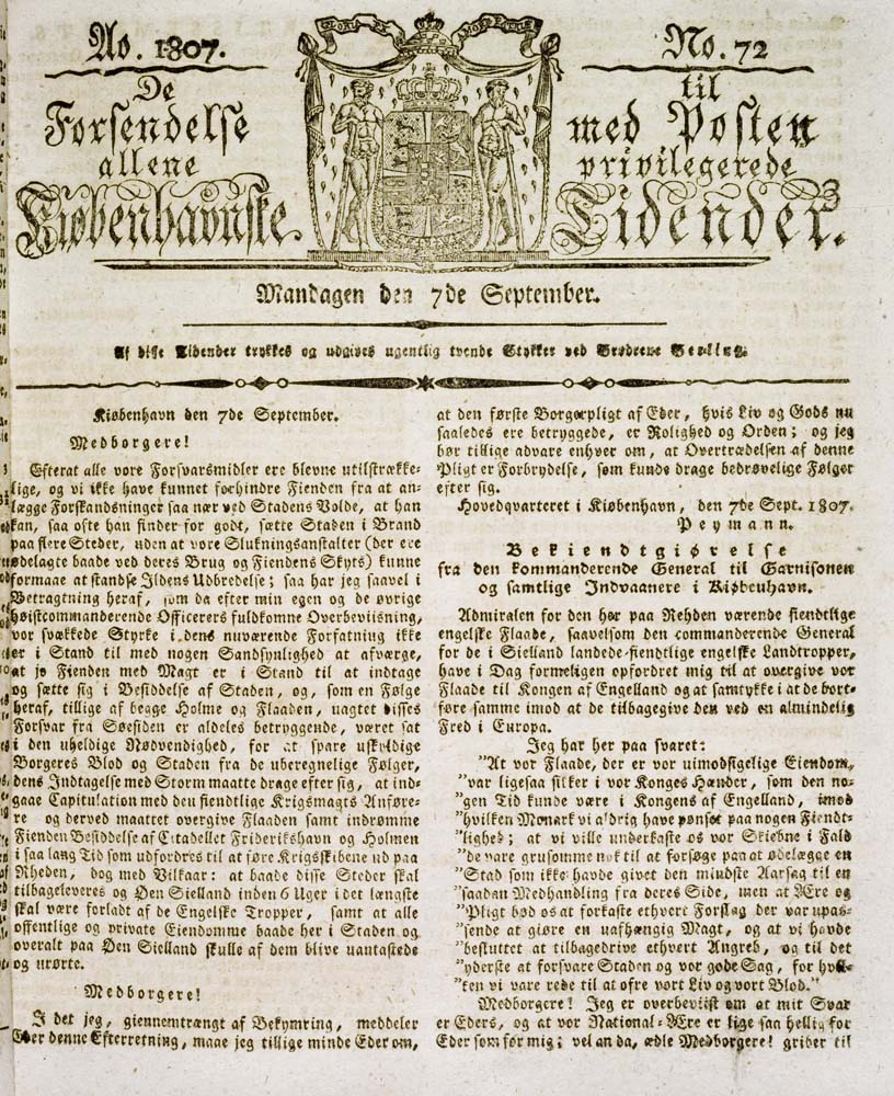 Frontpage of Berlingske Tidende 1807